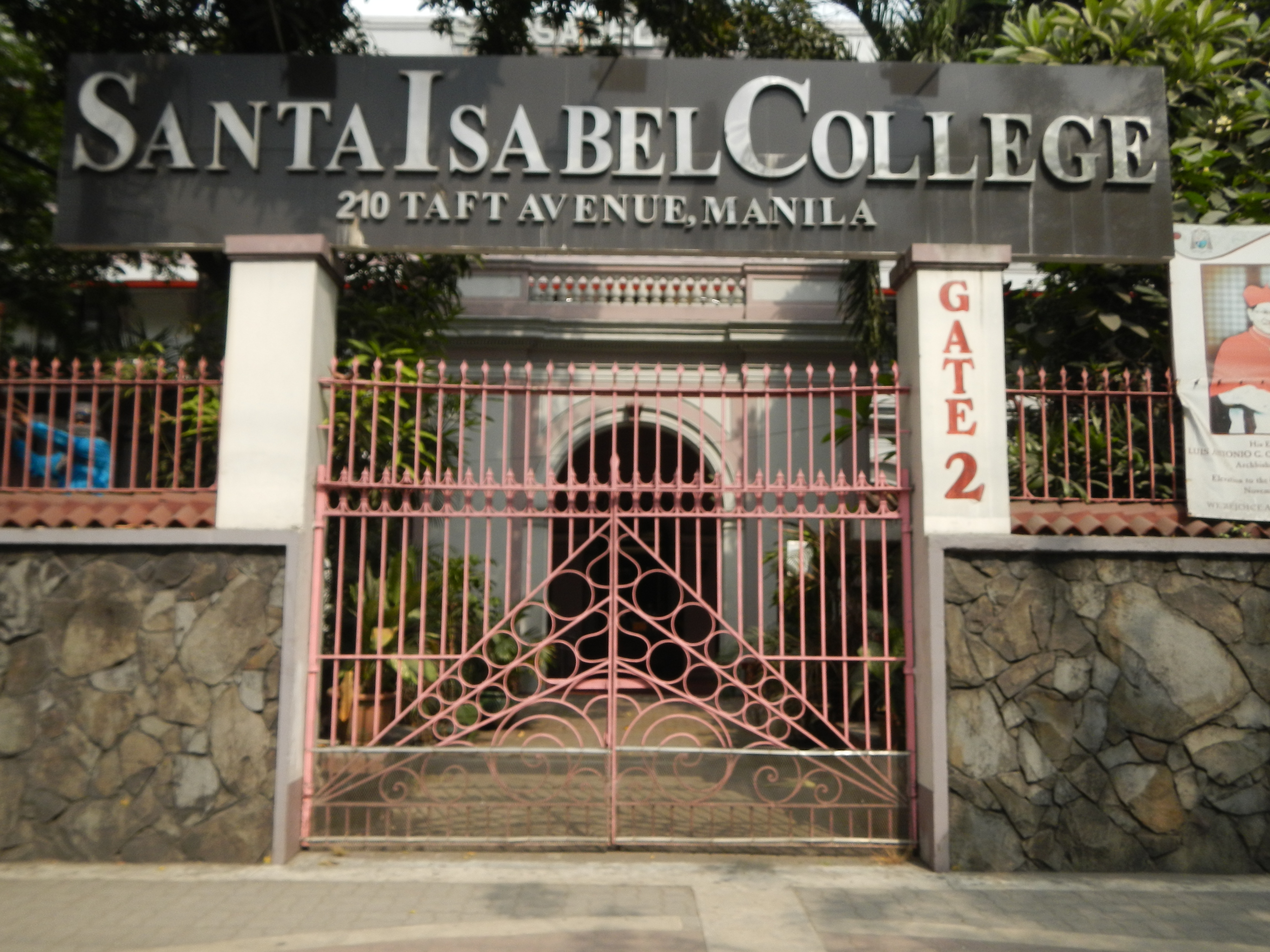 Facade of the 1632 Santa Isabel College Manila [1] is a Catholic school[2] and university in 210 Taft Avenue [3] Ermita [4] in the city of Manila, Philippines, formerly for girls only, offering courses at the primary, secondary, and post-secondary levels. The school is currently operated by the Daughters of Charity.[5] Sr. Josie B. Onag, D.C. President, Santa Isabel College, Manila 381-year old venerable learning institution, - Plazuela de Santa Isabel - part of Santa Isabel College Manila[6][7] [8]Coordinates: 14°35'25"N 120°58'28"E Located on the corner of General Luna and Anda Street, this park holds a memorial built to commemorate the thousands of civilians massacred within Intramuros by desperate Japanese forces during the Battle of Manila in February 1945. The statue depicts St. Isabel caring for wounded during the battle of Intramuros. - Memorare Manila 1945 Foundation, Inc. [9] The Memorare Manila Monument in Intramuros commemorating the innocent people who died during the liberation of Manila.[10] It was made part of the Santa Isabel College which lacked an open space characteristic of Spanish buildings. Empty lot called Sampalucan along Calle Anda joined to enlarge plazuela in the 18th century. Plazuela de Santa Isabel was restored in 1983. A monument dedicated to the non-combatant victims of the last war in the Philippines was erected in February 18, 1995 by Memorare – Manila 1945. Memorare Manila 1945 The Memorare Manila 1945 is a memorial dedicated to all those innocent victims of war. Many of whom went nameless and unknown to a common grave or never even knew a grave at all, their bodies having been consumed by fire or crushed to dust beneath the rubble of ruins. Santo Cristo del Tesoro [11] is in the Chapel of the College.